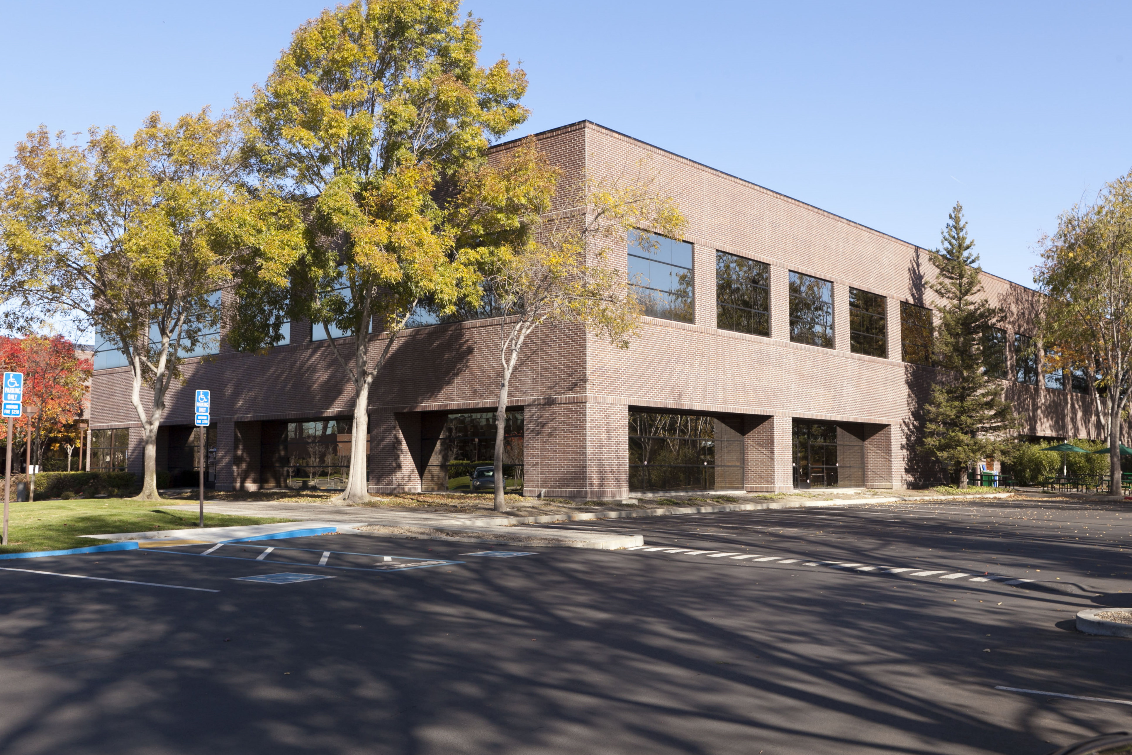 Linked in Headquarters in Mountain View, CA